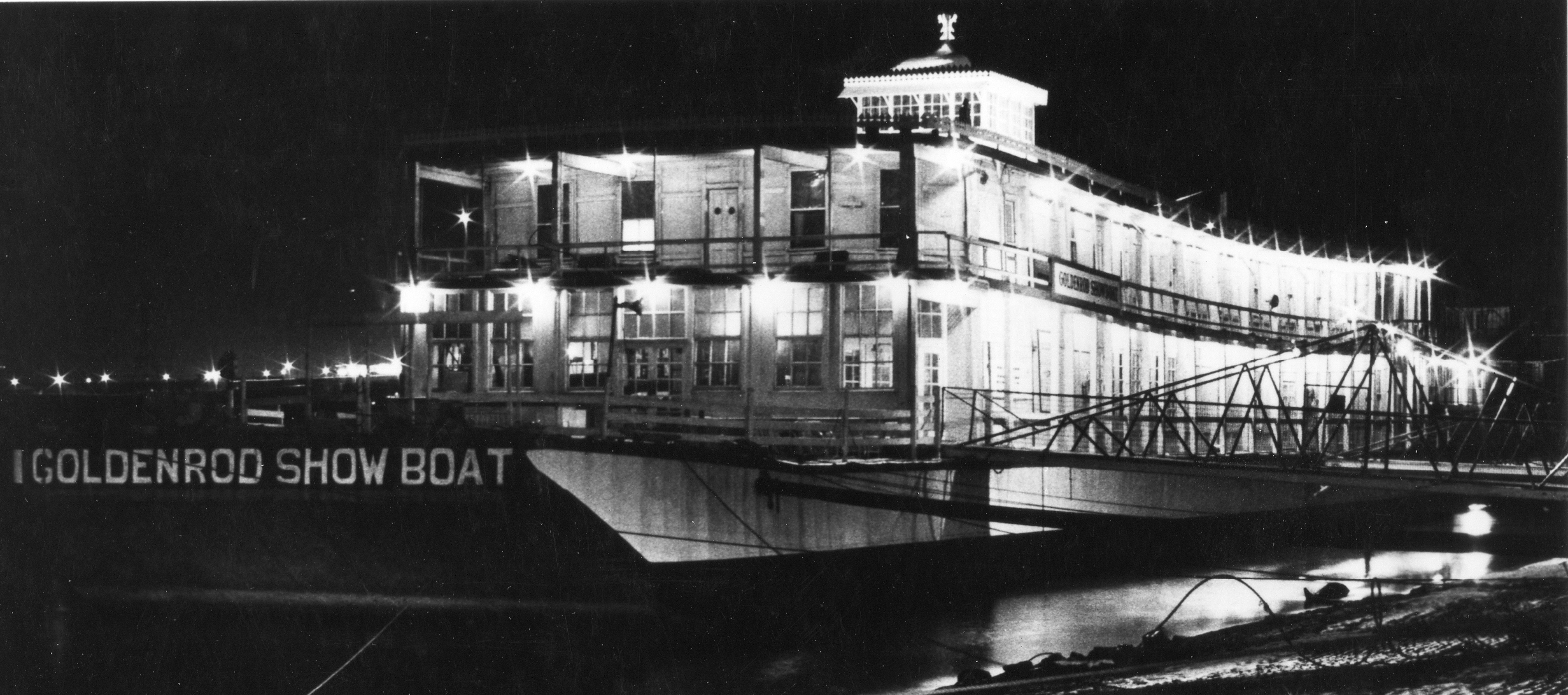 The Goldenrod Showboat in the early 1980's, moored at the St. Louis Riverfront adjacent to the Gateway Arch.